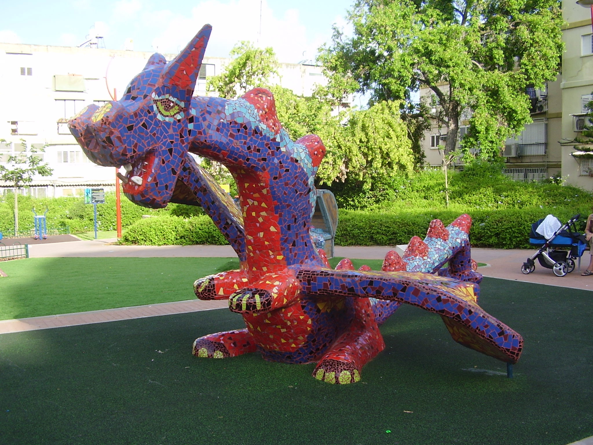 Story Garden \"the treasure of chambaloo\" in holon